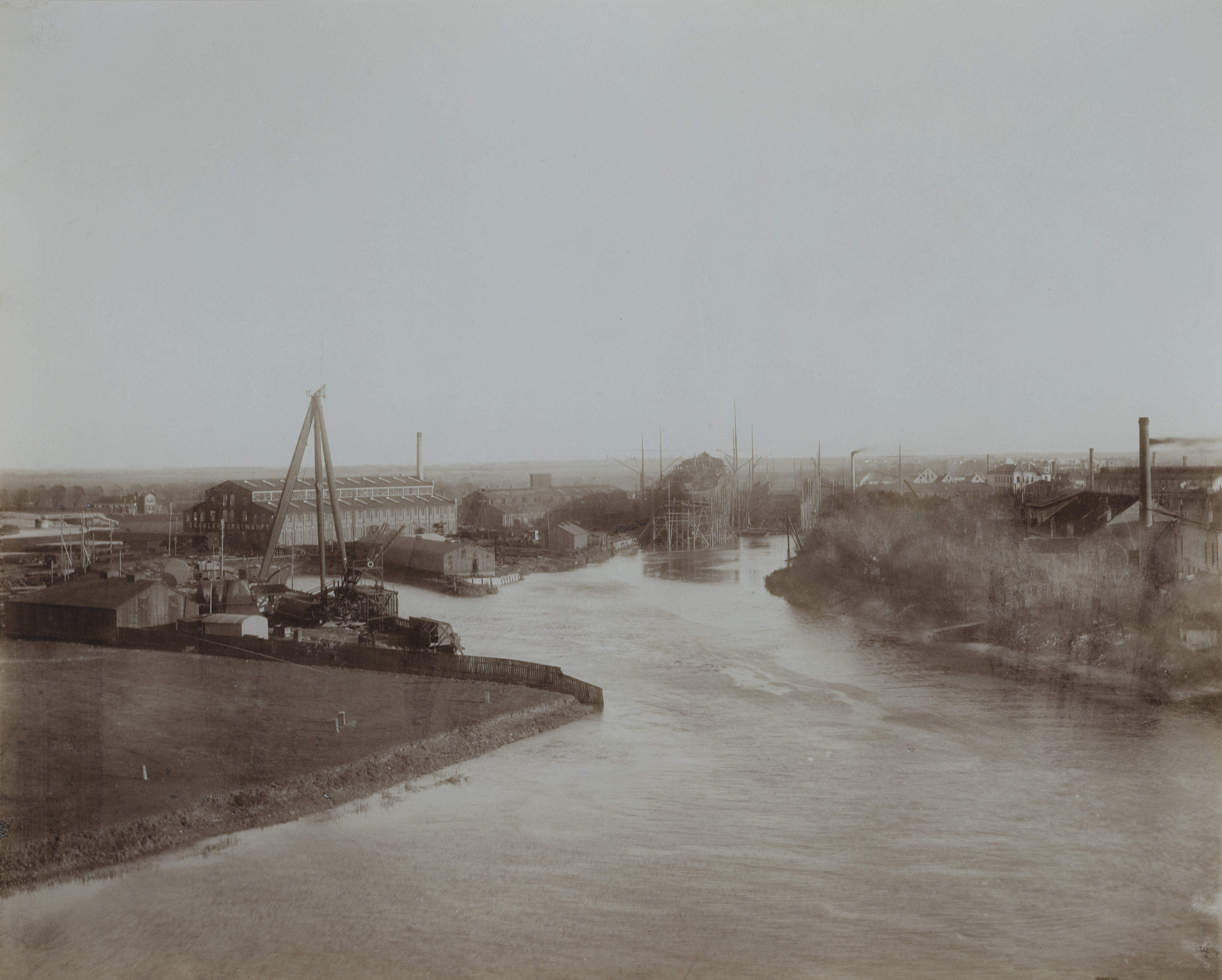 Format: Fotopositiv Dato / Date: ca. 1900 Fotograf / Photographer: Ukjent Sted / Place: Geestemünde; Bremerhaven, Tyskland Wikipedia: Joh. C. Tecklenborg Eier / Owner Institution: Trondheim byarkiv, The Municipal Archives of Trondheim Arkivreferanse / Archive reference: Tor.H44.L02.F9336